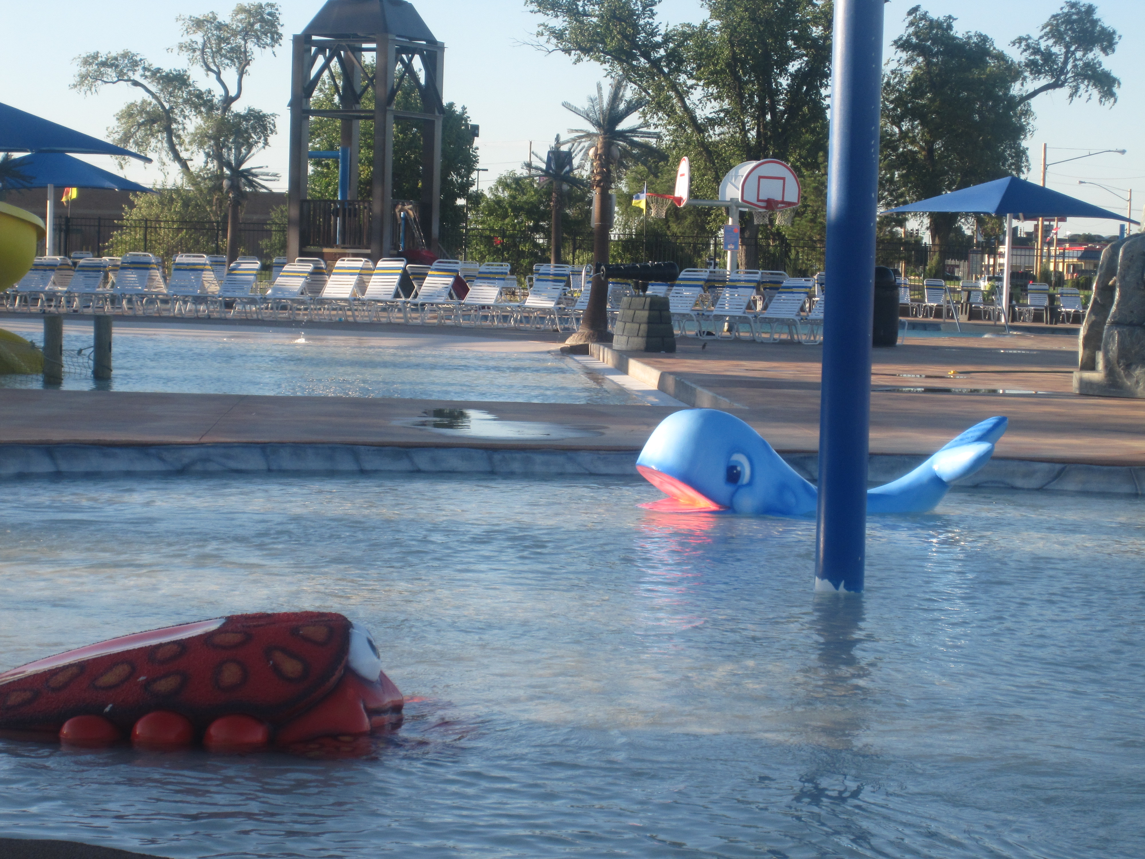 I took photo with Canon camera in Liberal, KS.